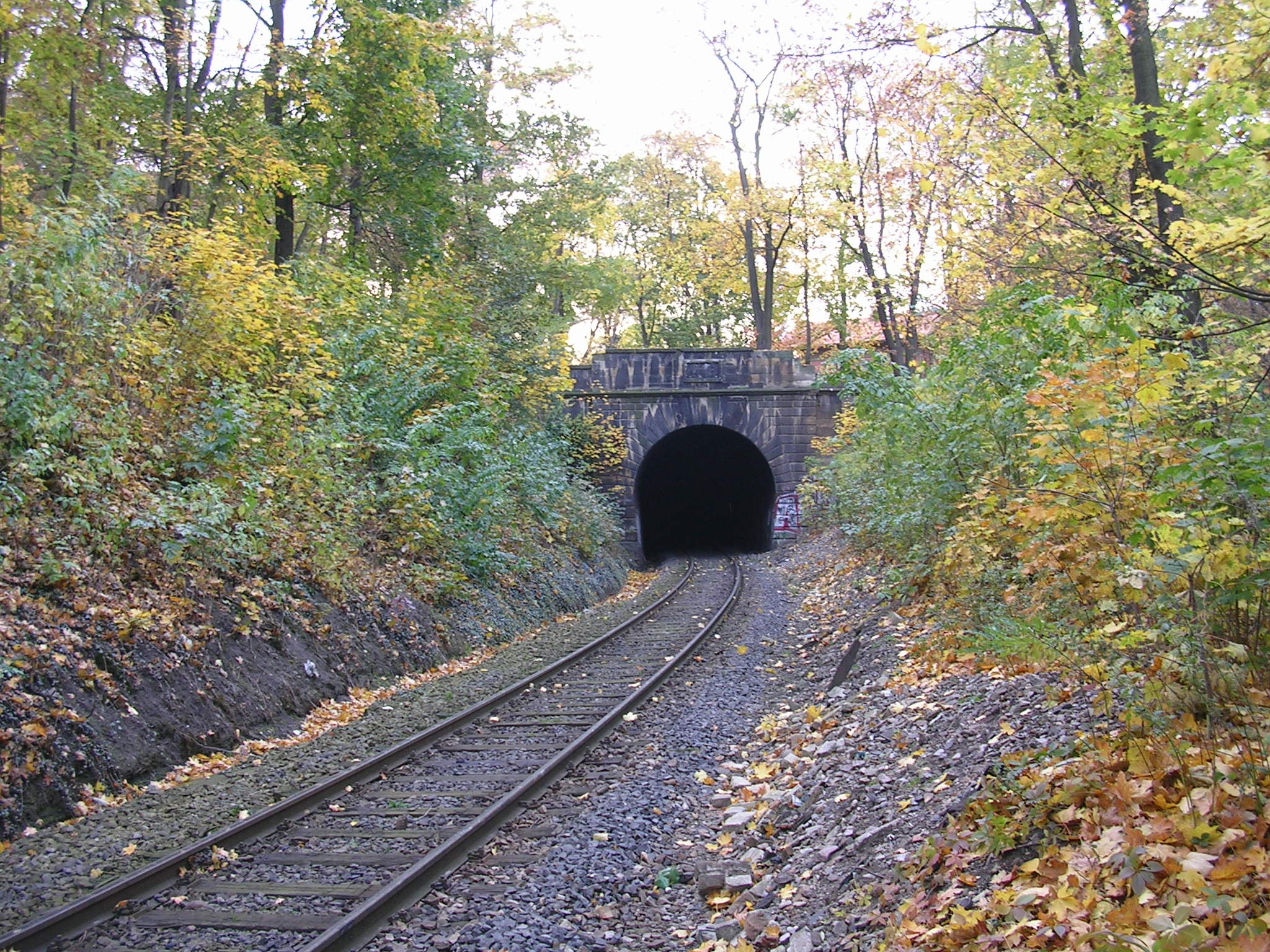 Bubeneč, Prague. - Google Maps - Google Earth